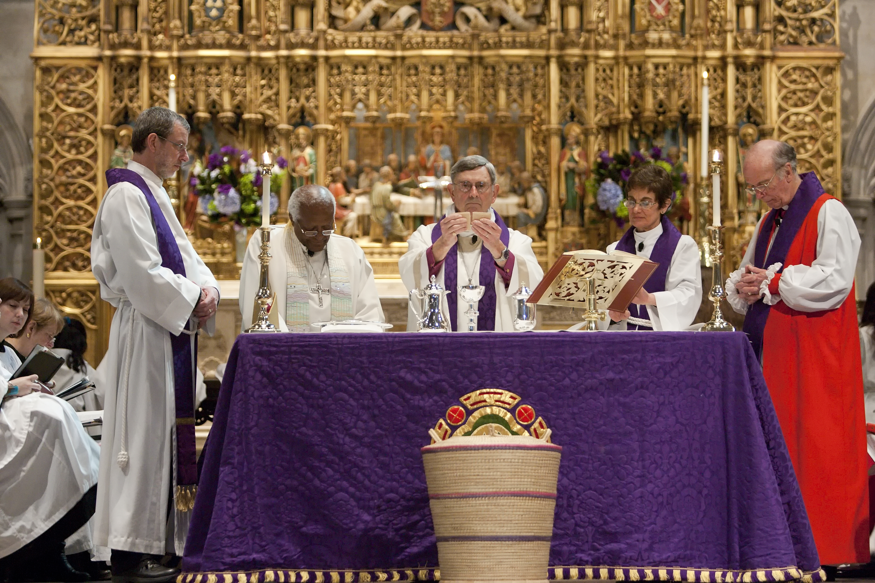 Desmond Tutu, Gordon McMullan, Hays Rockwell, Brenda Husson and Craig Townsend celebrating Holy Communion, March 2010, St. James' Church (Episcopal), New York City.